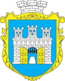 Modern Coat of Arms of Gorodok (Lviv region) Ukraine